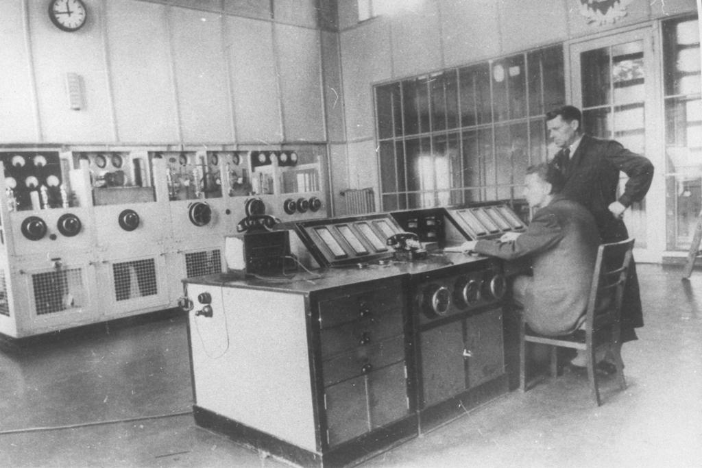 Gliwice. The place of provocation